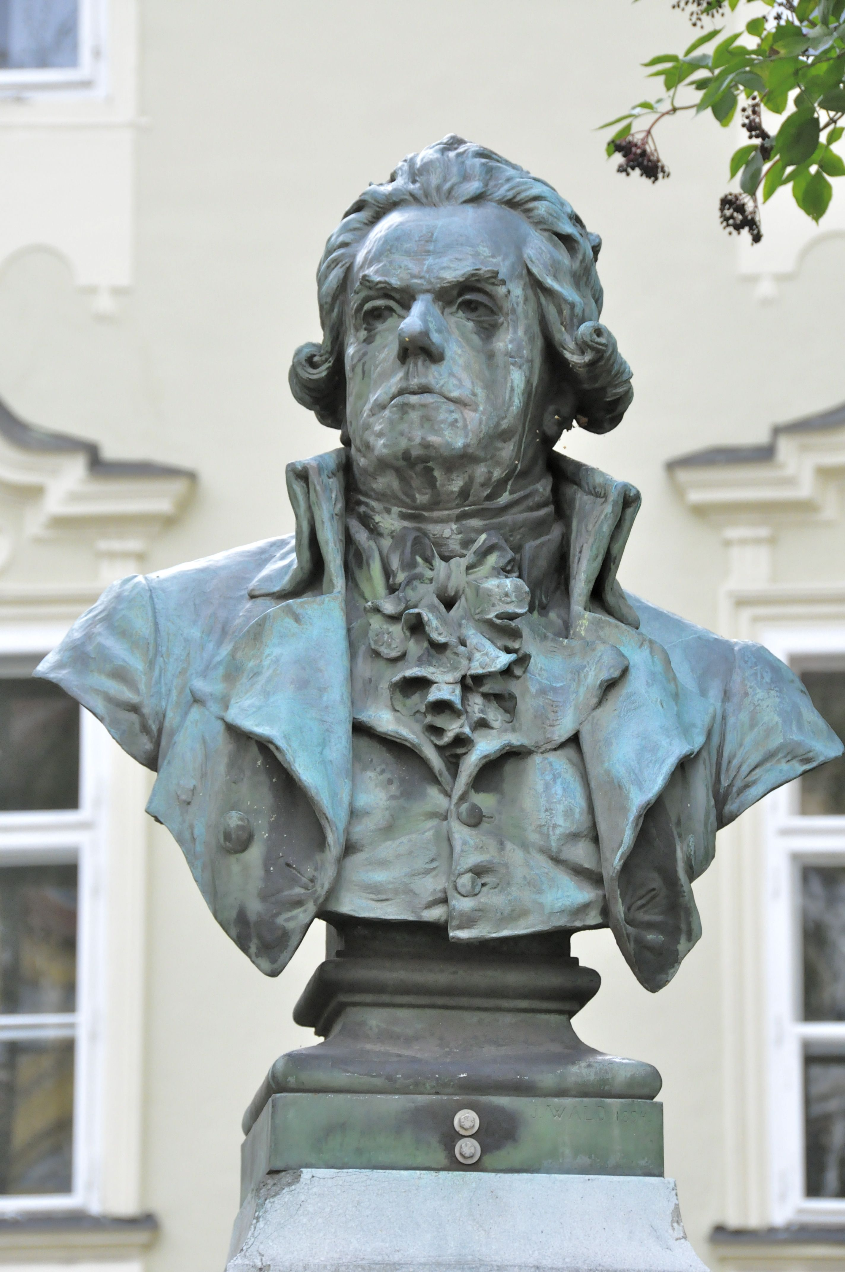 Bronze bust for Franz Josef Count of Enzenberg, created by Jakob Wald in 1894, on the Ursulinengasse in Klagenfurt, inner city, capital of the state Carinthia / Austria / EU